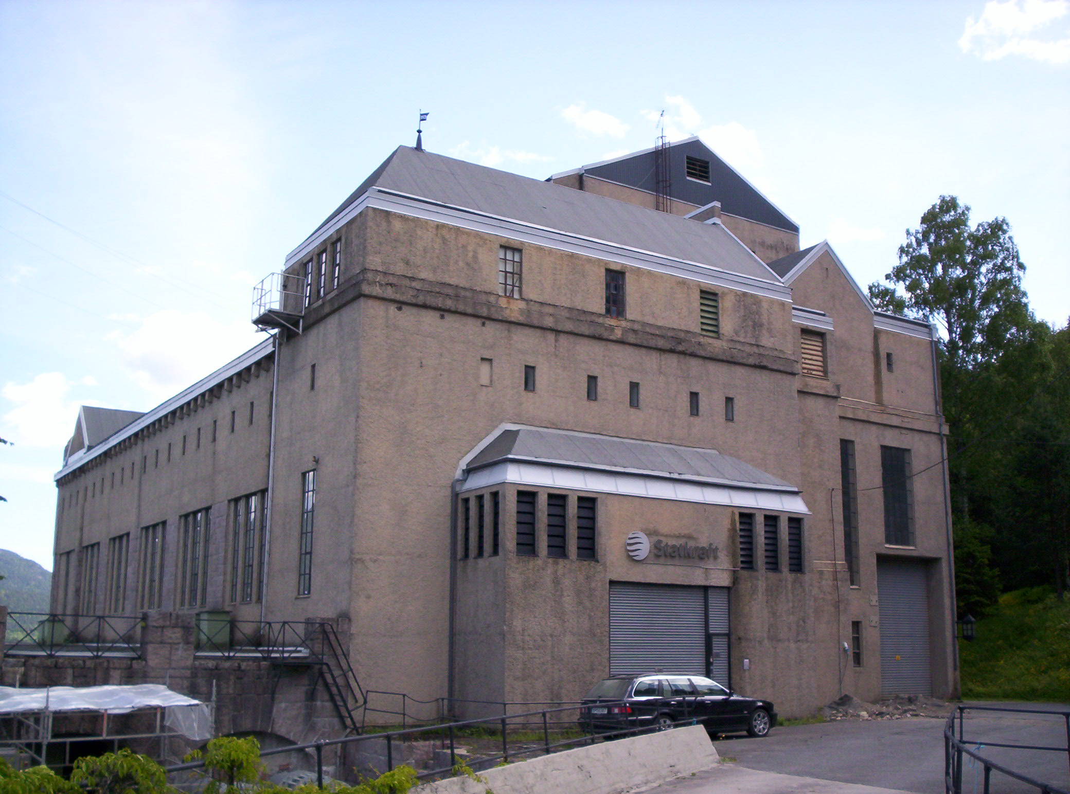 The hydropower plant Hakavik in Buskerud, Norway